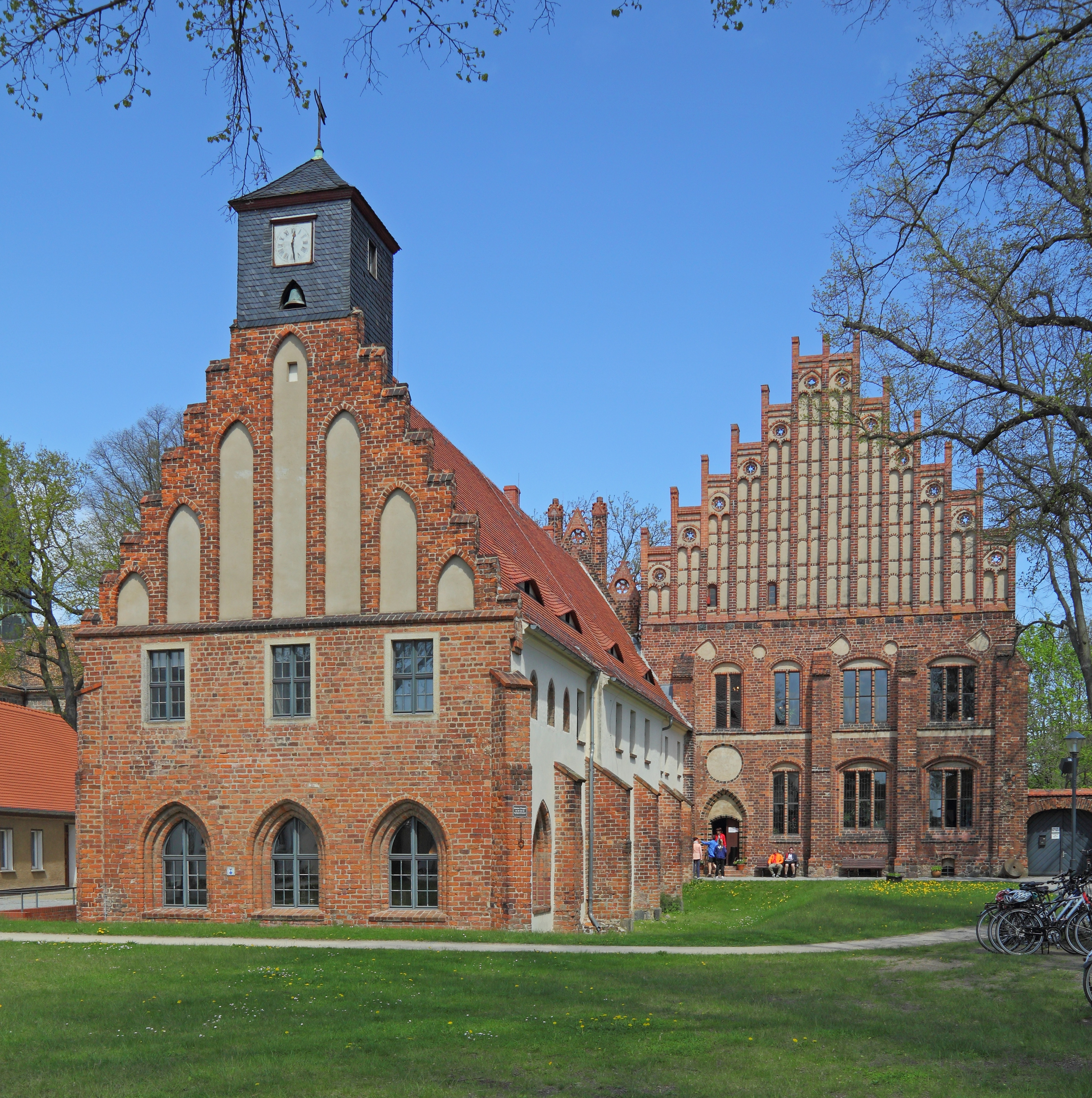 Zinna Abbey in Jüterbog, Brandenburg, Germany